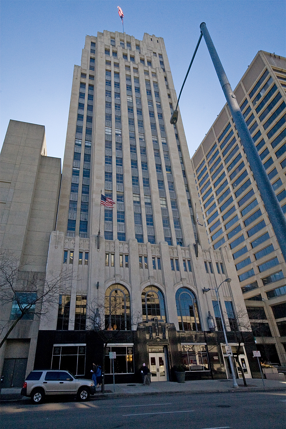 Mutual Home & Savings Association Building in Dayton, Oh. Photo by Greg Hume